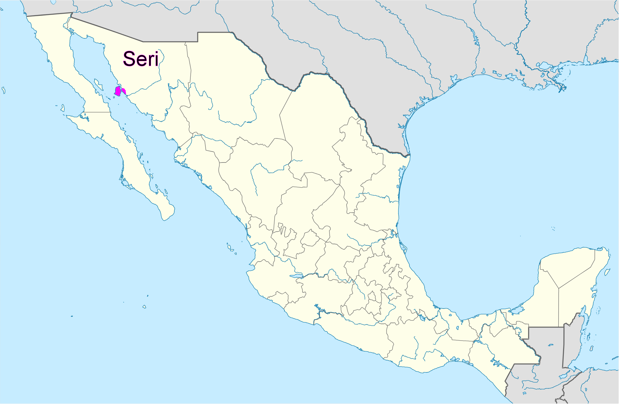 Location of the Seri language within Mexico. Source of data: Ethnologue.